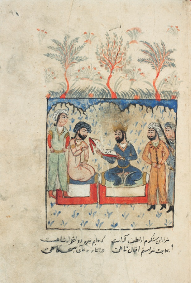 Hushang